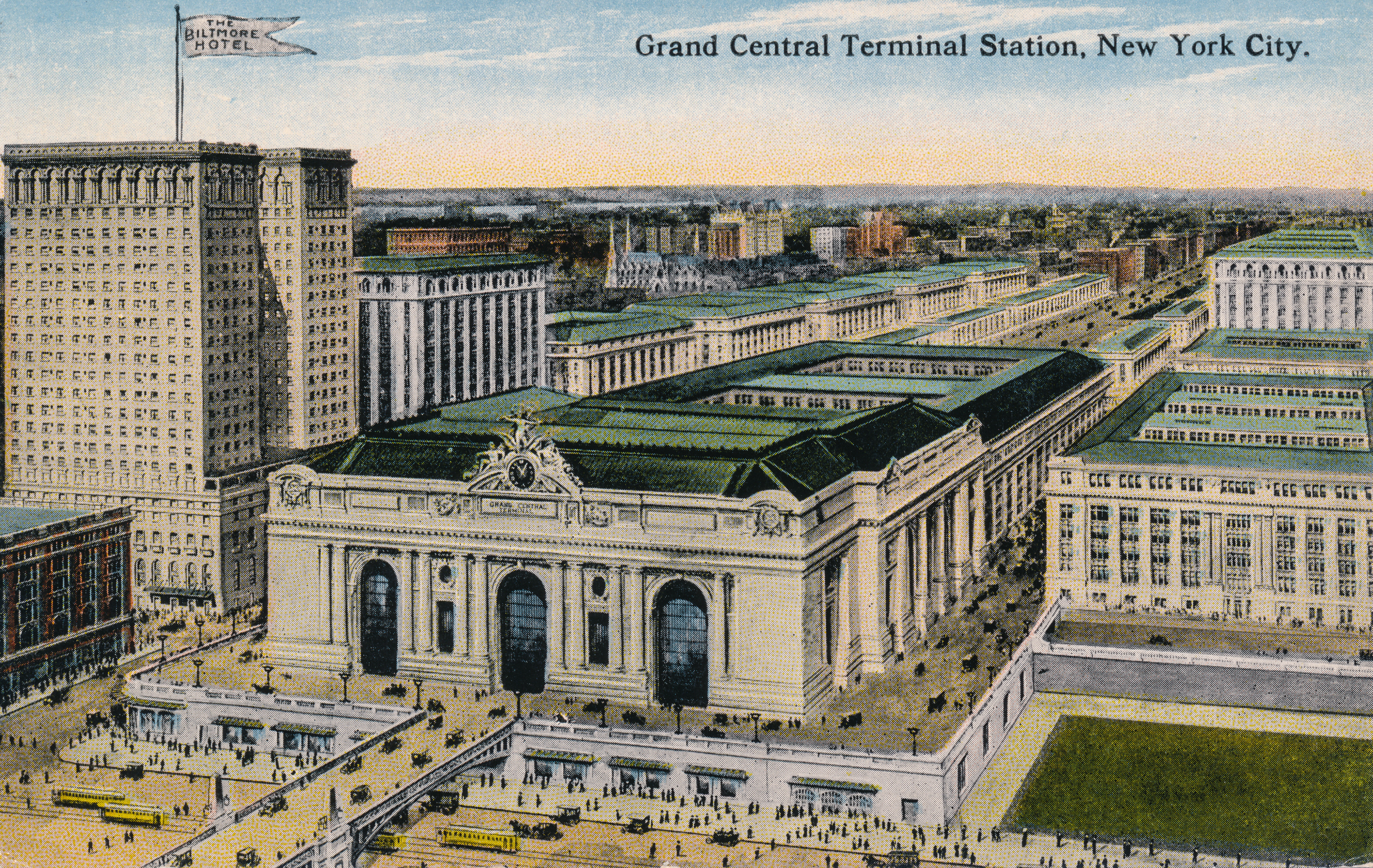 An early postcard of Grand Central Terminal in New York City.